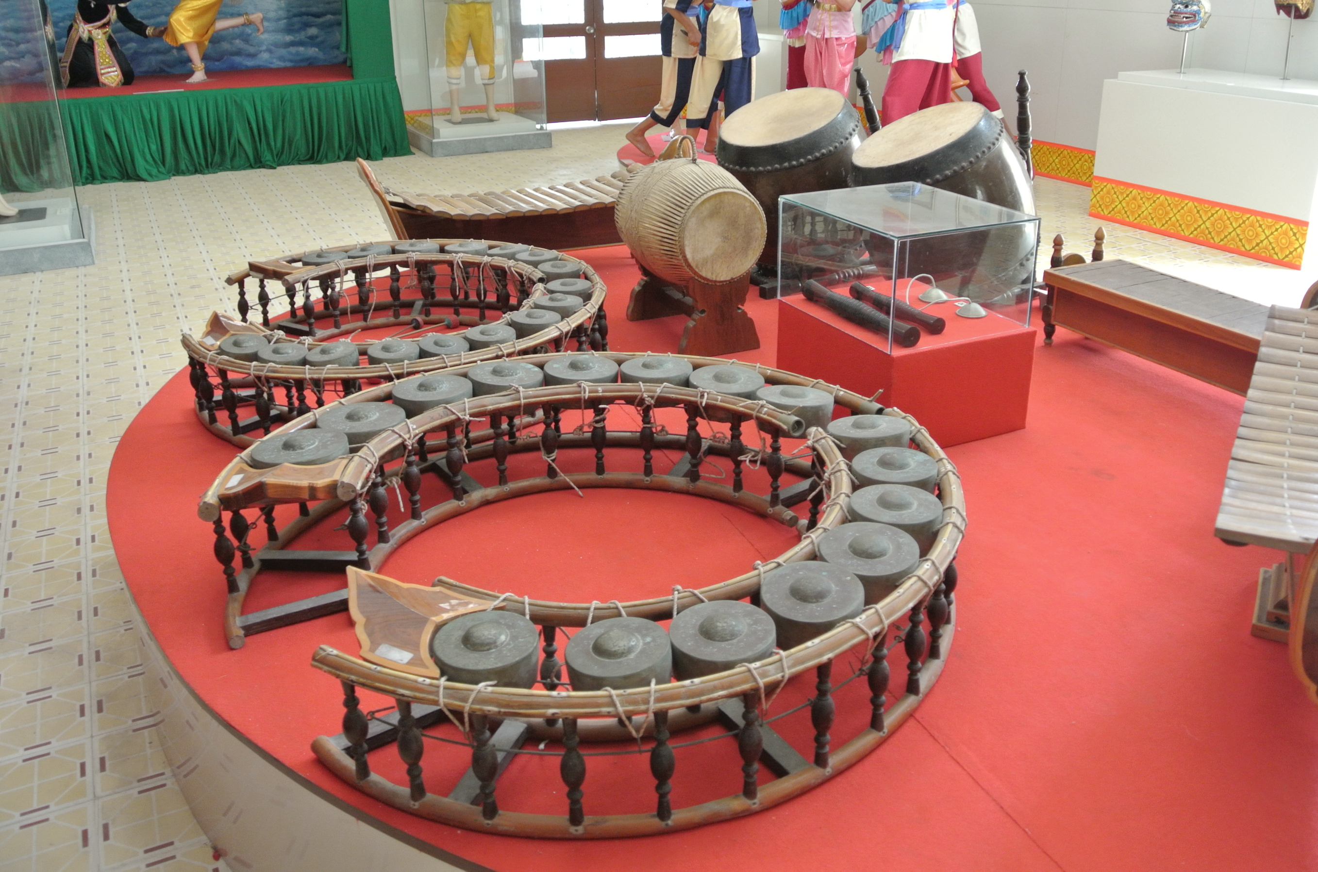 Khmer style gong at Khmer poeple culture museum in Tra Vinh Vietnam. Instruments are (clockwise from front) gong chimes kong von thom and kong toch, roneat ek bamboo xylophone, samphor drum, skor thom drum,sralai toch and thom oboes in glass case, ching or chap small cymbals, roneat dek metal xylophone, and roneat thung bamboo xylphone (half in edge of photo).